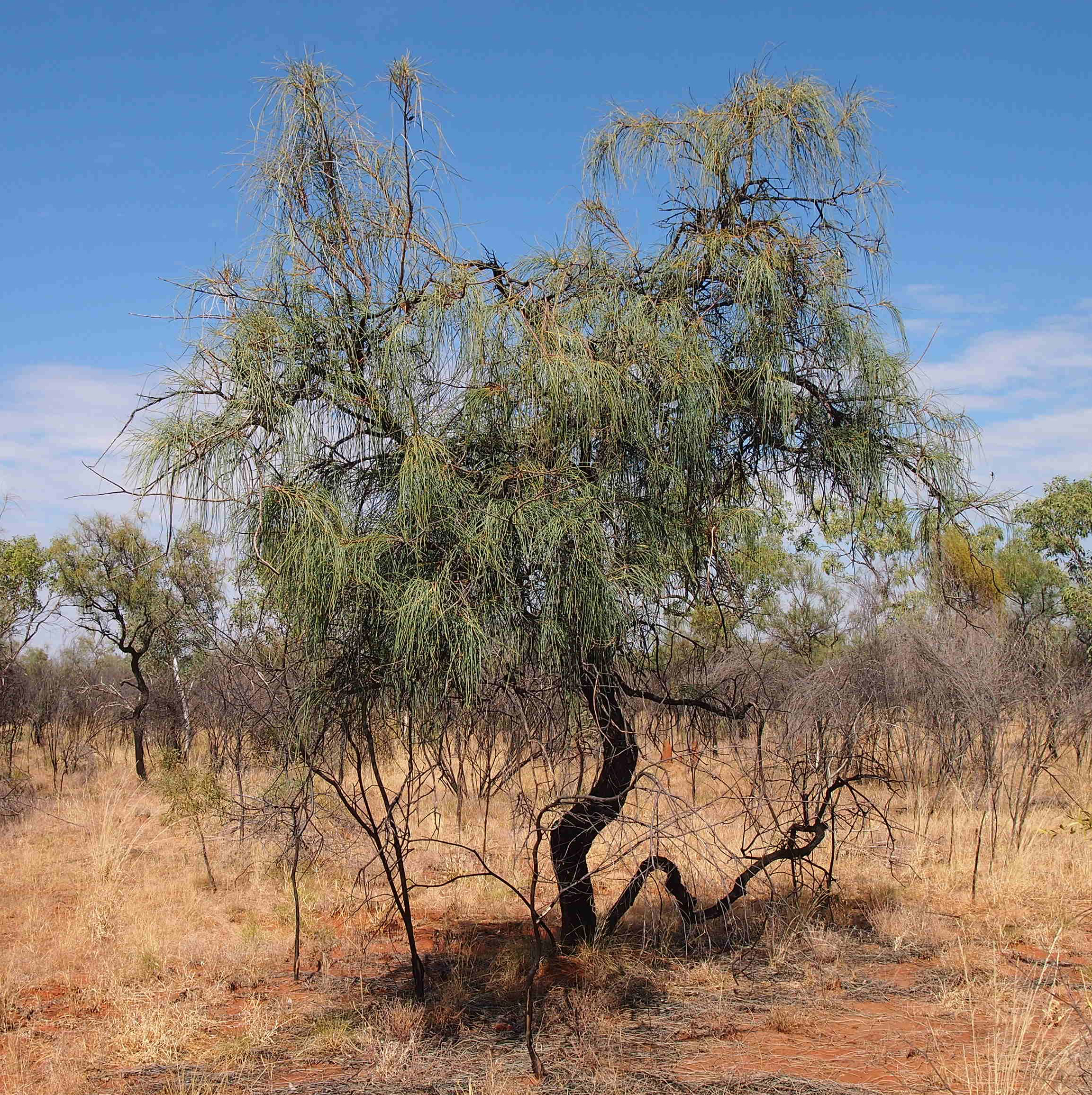 Hakea chordophylla form